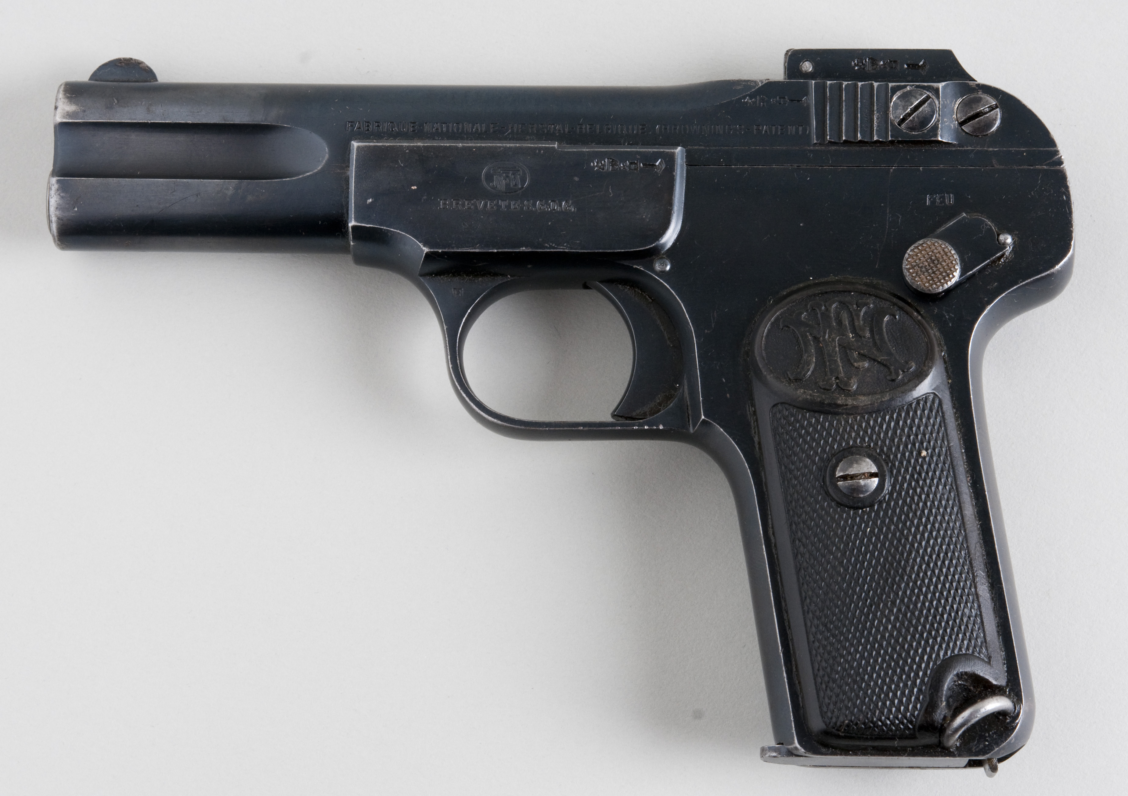 Browning 1900 From flickr user handvapensamlingen - Pistols used in Norway.